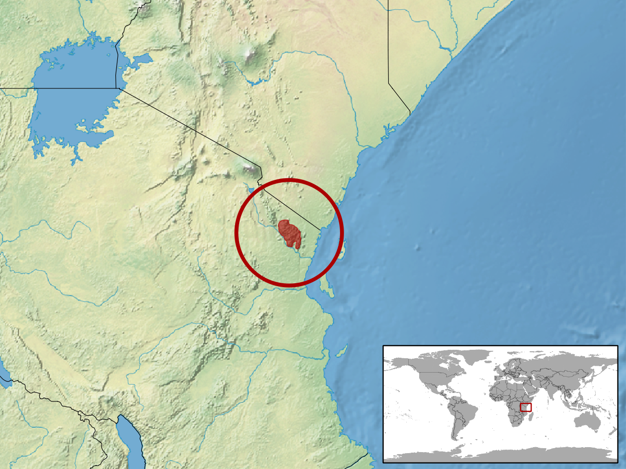 geographic distribution of Rhampholeon spinosus (Native: Tanzania, United Republic of)